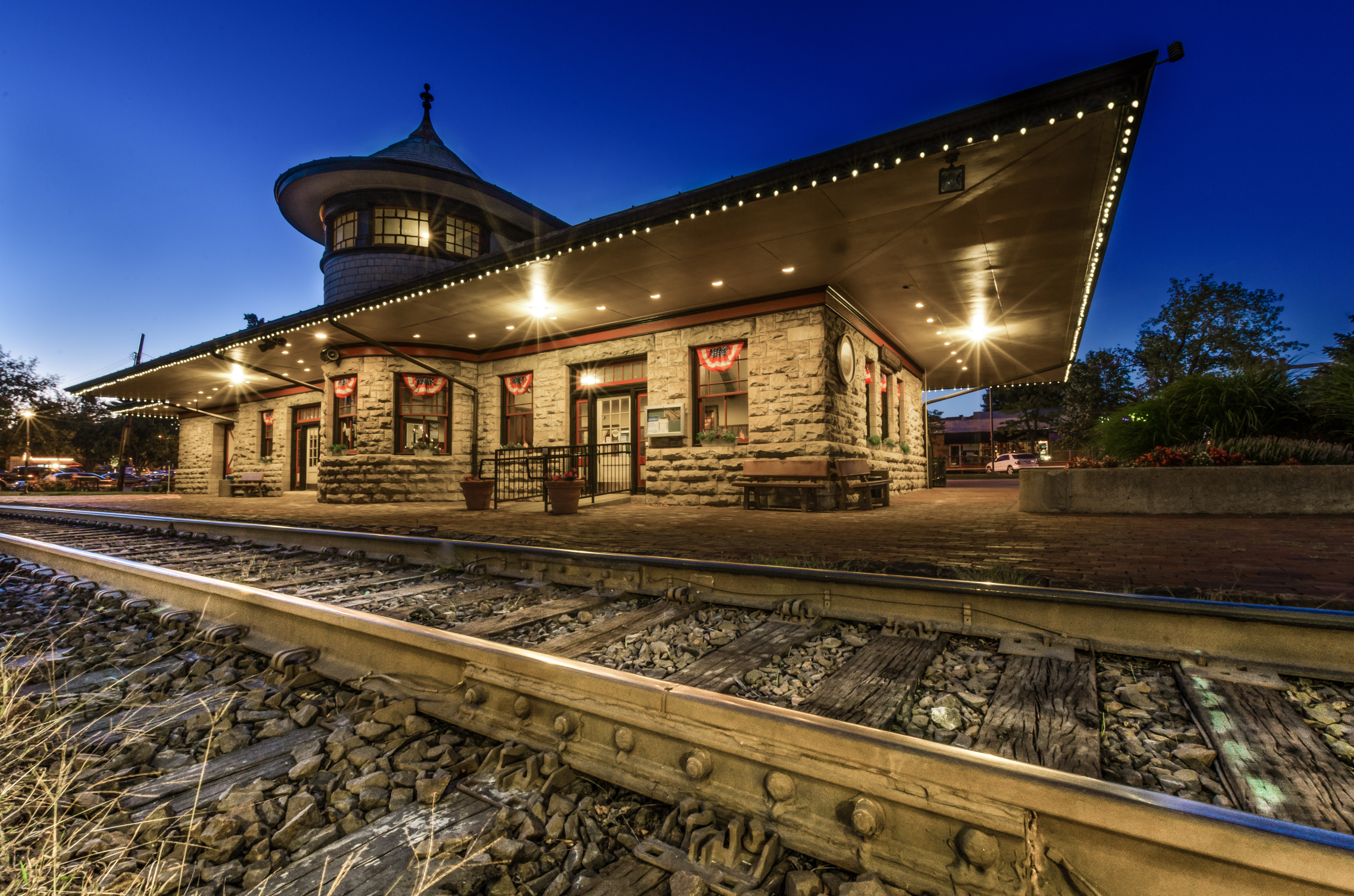 This Amtrak train station, built in 1893, is owned by the City of Kirkwood, Missouri and staffed by volunteers. It not only serves passengers, but also contains a museum.